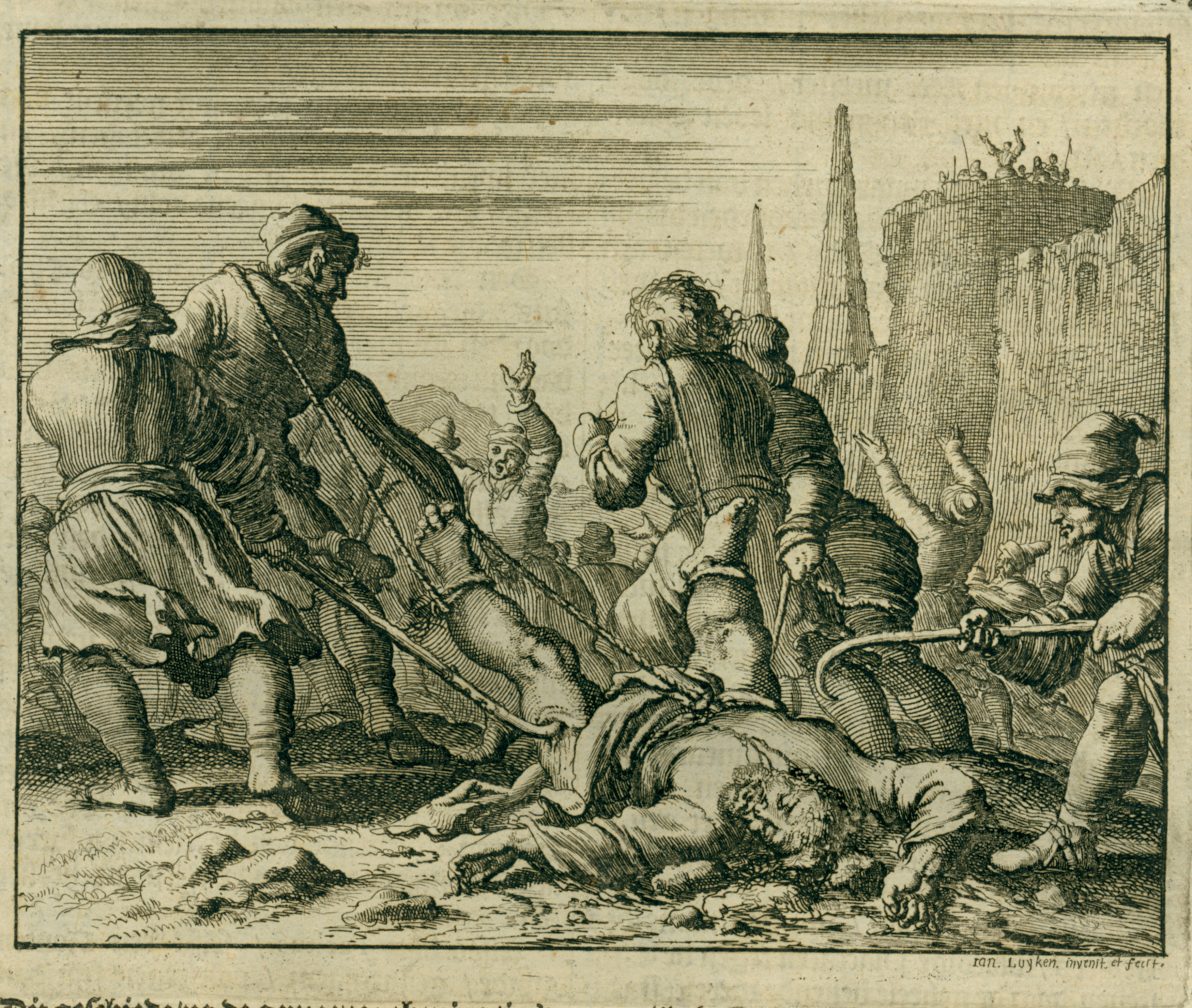 Death of Mark the evangelist, Alexandria, AD 64 (Eeghen 662), in the 1685 edition of the Martyrs Mirror.